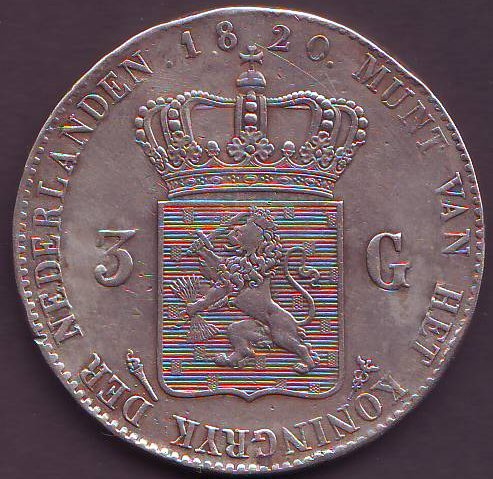 Three guilders coin from the Netherlands, 1820, front side